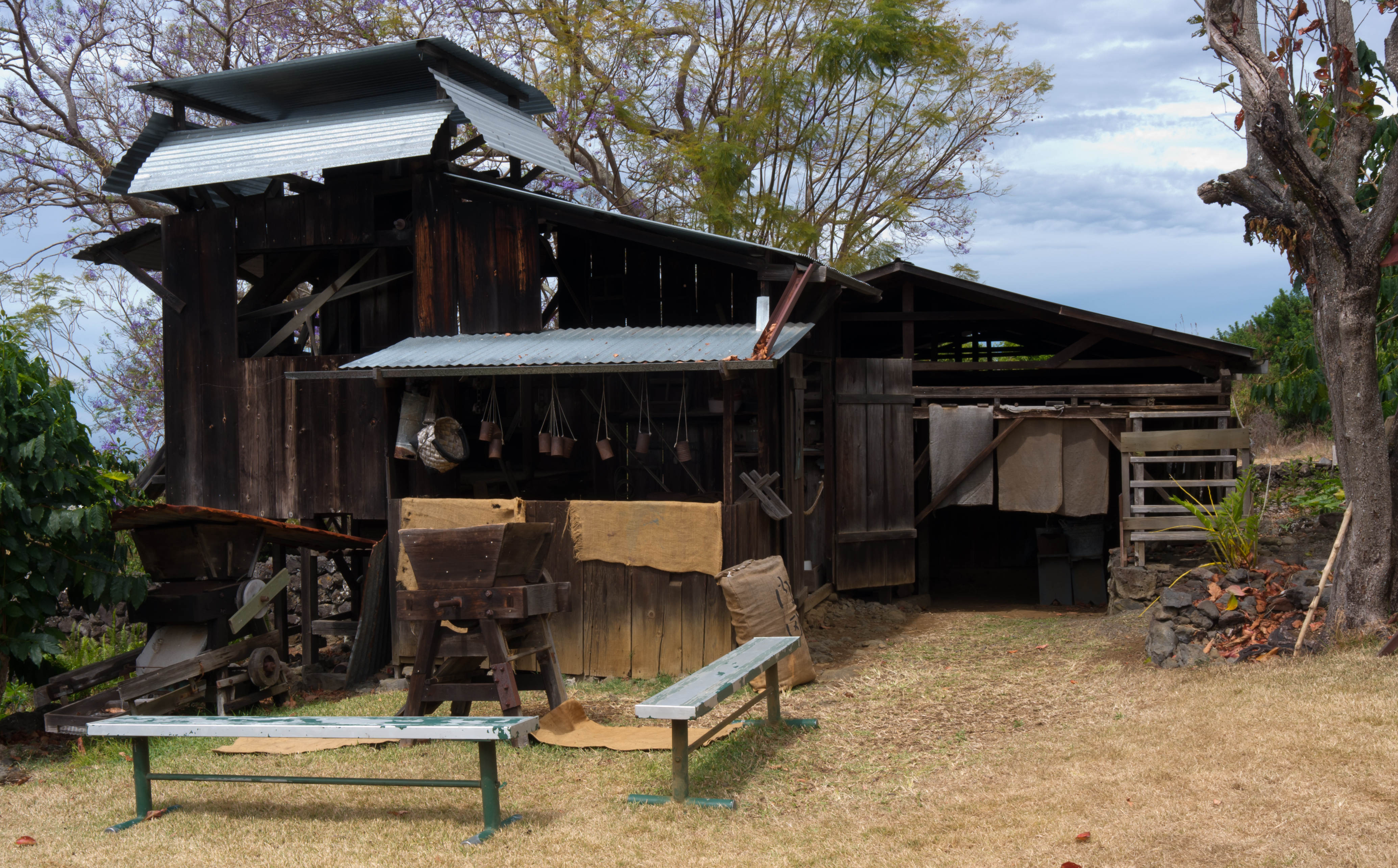 Historic coffee mill at the Kona Coffee Living History Farm, March 2012.